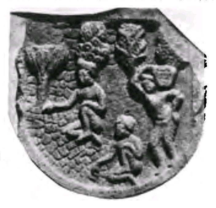 Jetavana Garden at Sravasti, Bodh Gaya relief